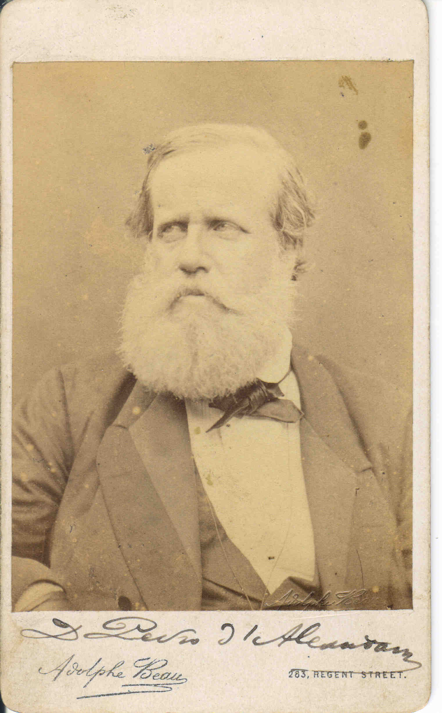 Emperor Pedro II of Brsil autographed photograph.